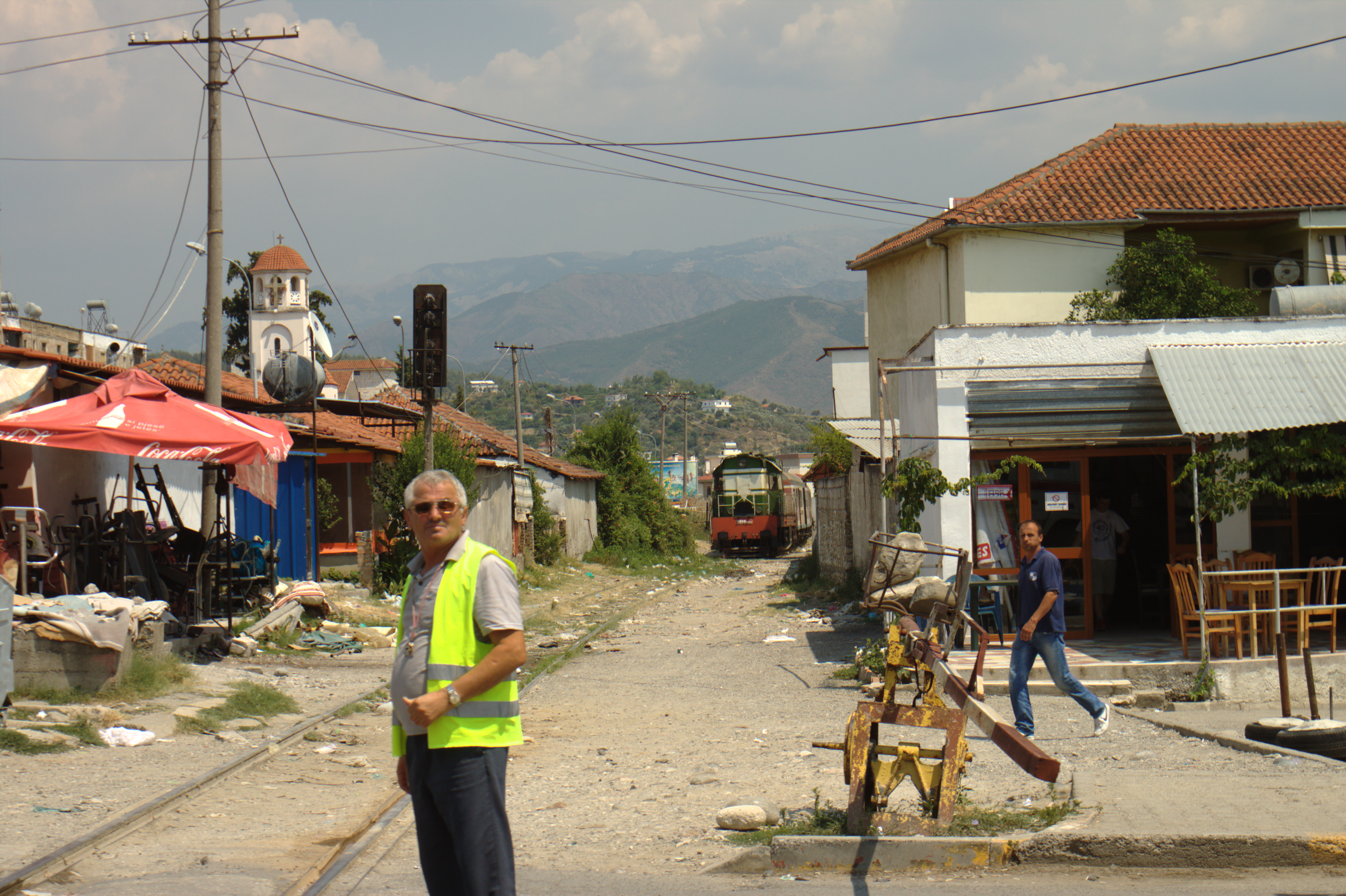 A passenger train crossing a road in Elbasan, Albania Personality rights warningAlthough this work is freely licensed or in the public domain, the person(s) shown may have rights that legally restrict certain re-uses unless those depicted consent to such uses. In these cases, a model release or other evidence of consent could protect you from infringement claims.